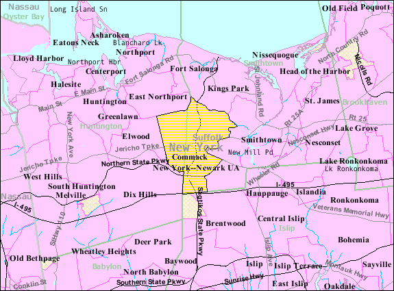 U.S. Census 2000 reference map for Commack